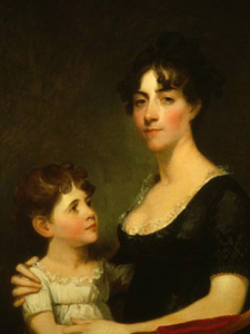 Rosalie Stier Calvert and daughter Carolina Maria painted by Gilbert Stuart 1804